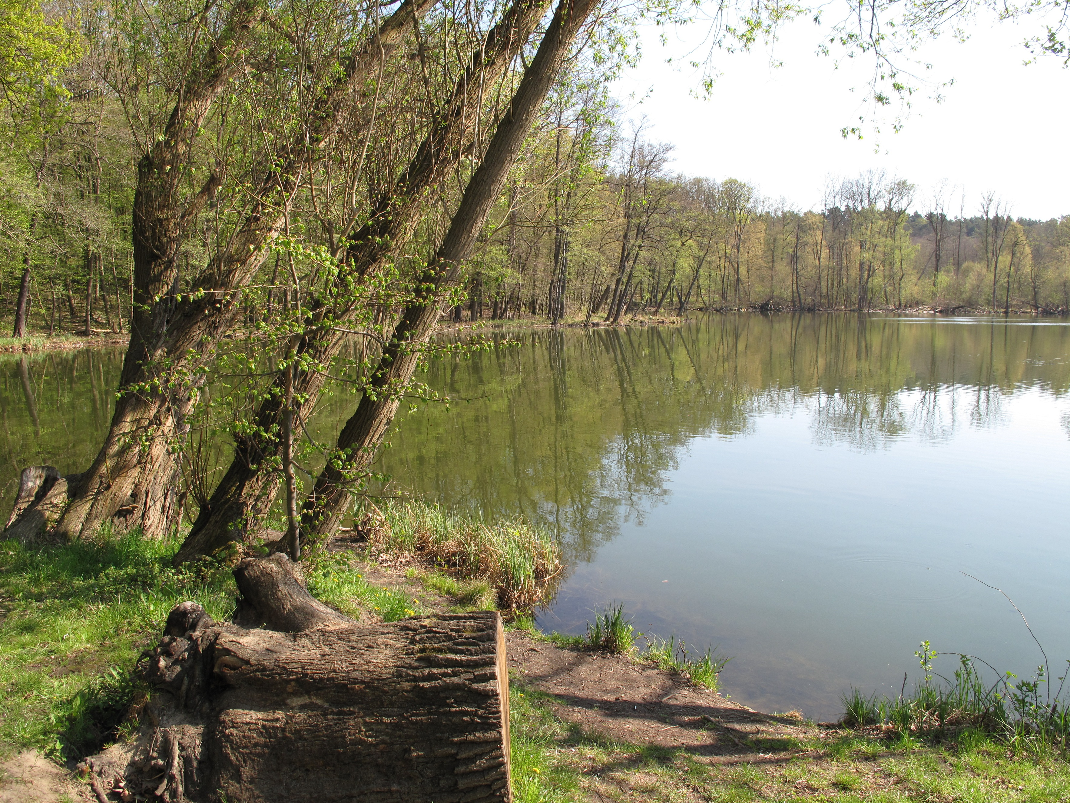 The Große Tornowsee is a lake in the hill country „Märkische Schweiz“ and in the Märkische Schweiz Nature Park. It is situated in Pritzhagen, a village of the municipality Oberbarnim in the District Märkisch-Oderland, Brandenburg, Germany. The lake covers 10 hectare.